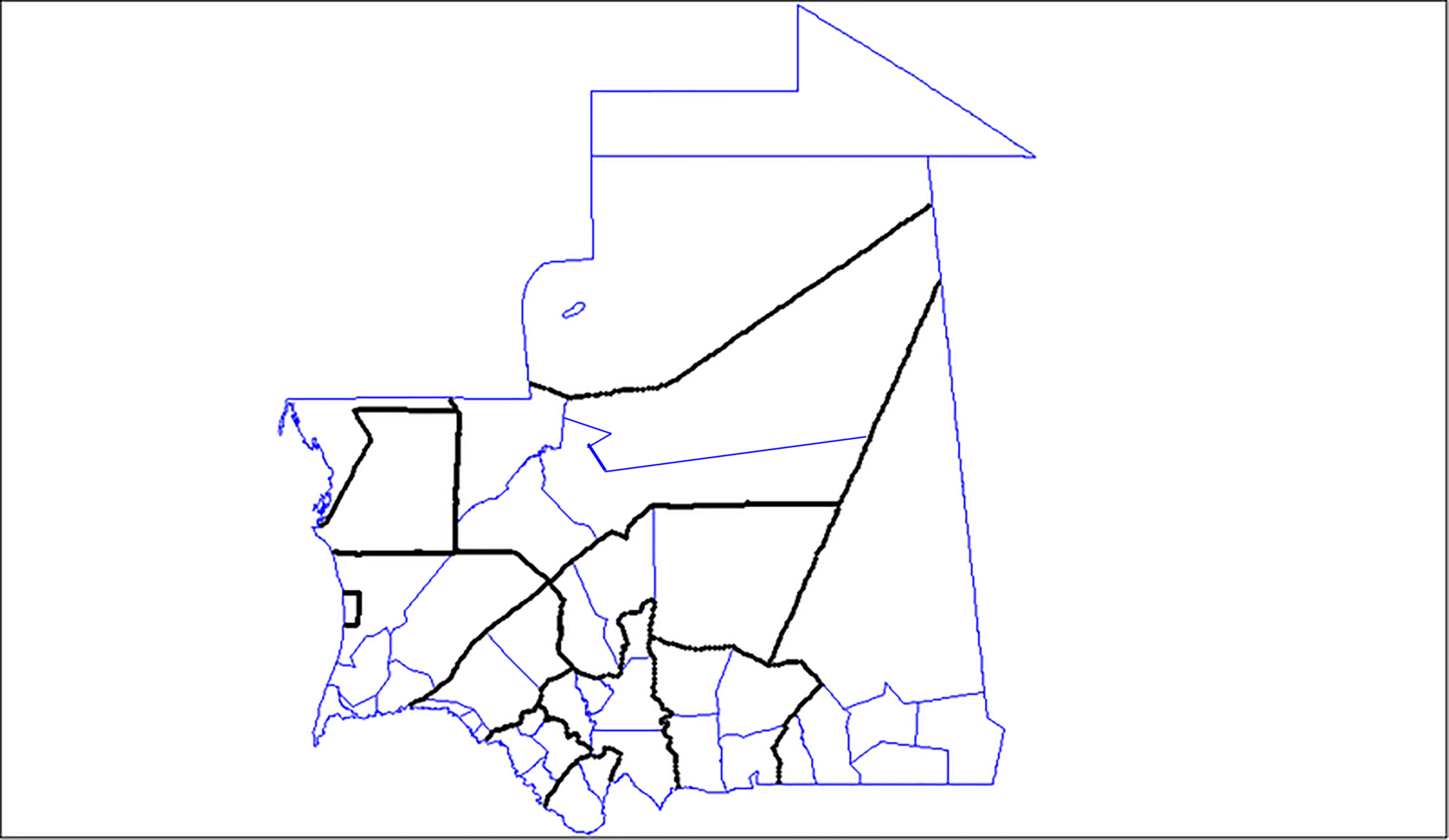 Departments and regions of Mauritania - modified file from en wiki Departments of Mauritania